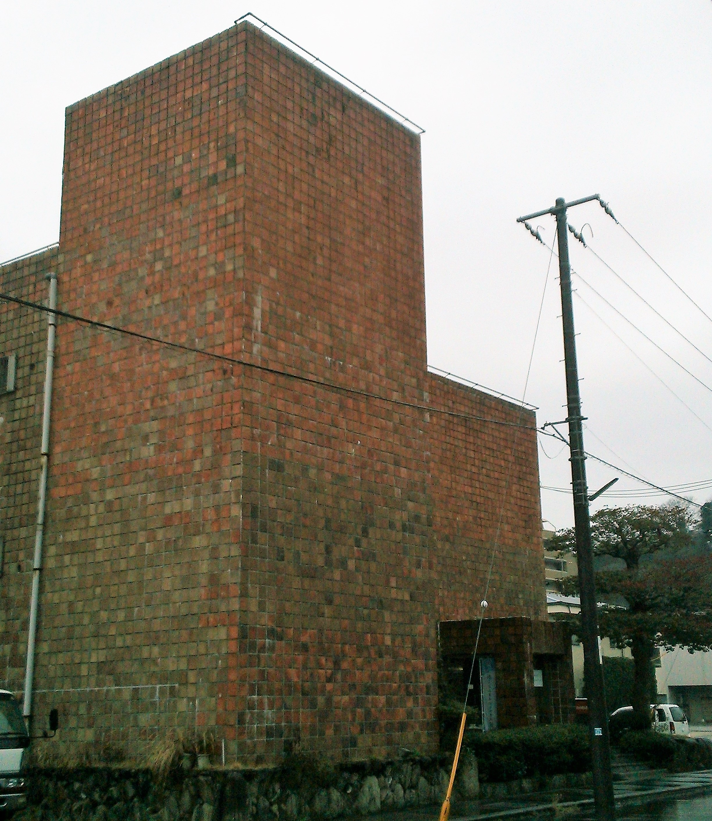 BIZEN America Latin Museum is a art museum in Bizen city, Okayama prefecture, Japan.